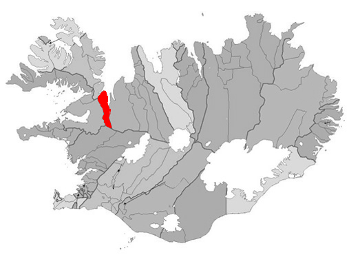 Bæjarhreppur, Icelandic municipality Own work based on Image:Municipalities_of_Iceland.png using The Gimp